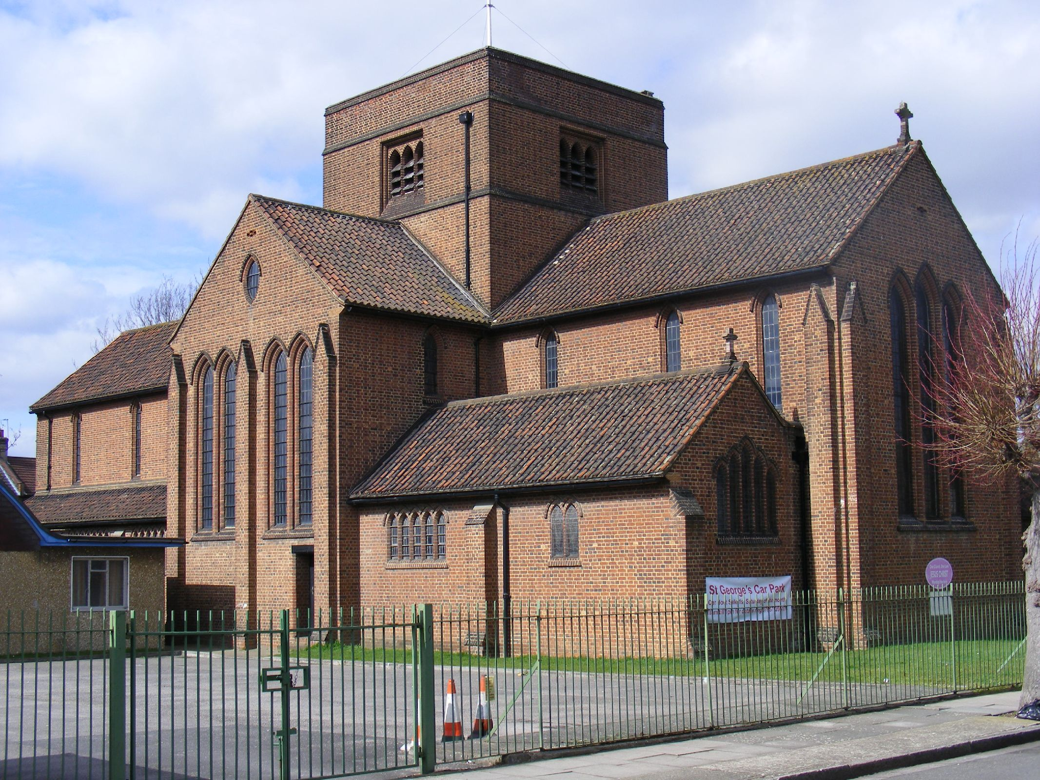 Architects Newberry & Fowler. Built 1935-1937, replacing a smaller mission chapel